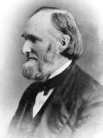 Photograph of George Frederick Magoun, first president of Iowa College, now Grinnell College. Magoun died in 1896, so the portrait must be in the public domain by now.